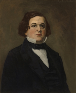 Portrait of Howell Cobb (1815-1868)